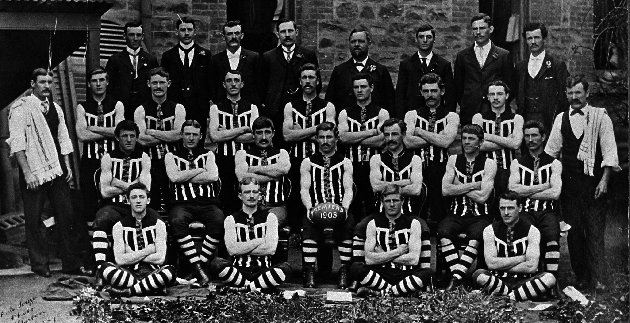 A Port Adelaide Football Club team, SAFA premiership season..